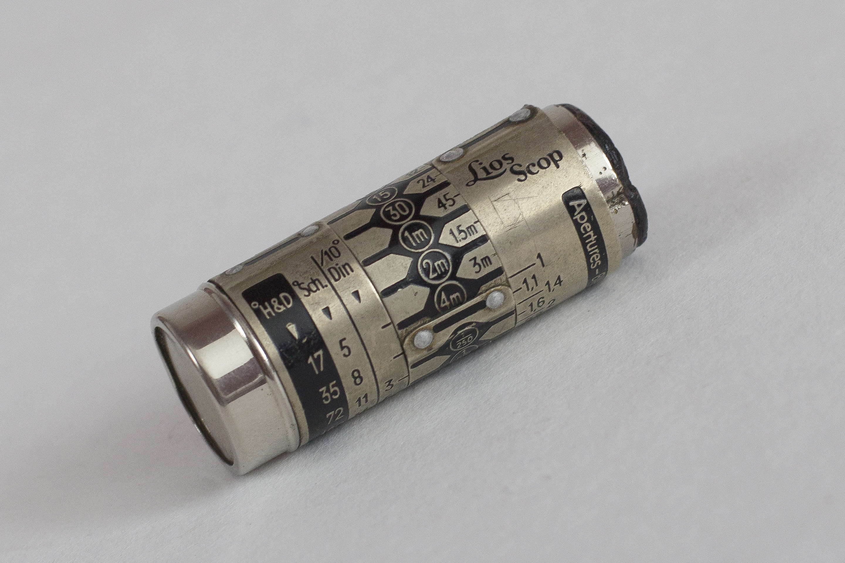 Lios scop light meter. Point the light meter at the scene to be photographed and adjust the length of the tube to suit your view. Look in the lios for 10 seconds and record the last visible number, from 4 minutes to 1/250 s, in front of the speed of the film. Read the speed in front of the selected aperture. Made in Germany towards 1930.